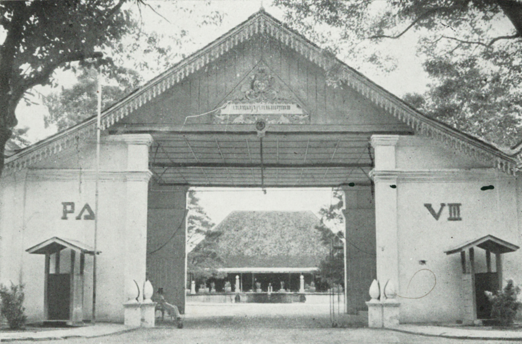 Entrance to Pura Pakualaman Yogyakarta, Kota Jogjakarta 200 Tahun, plate before page 57